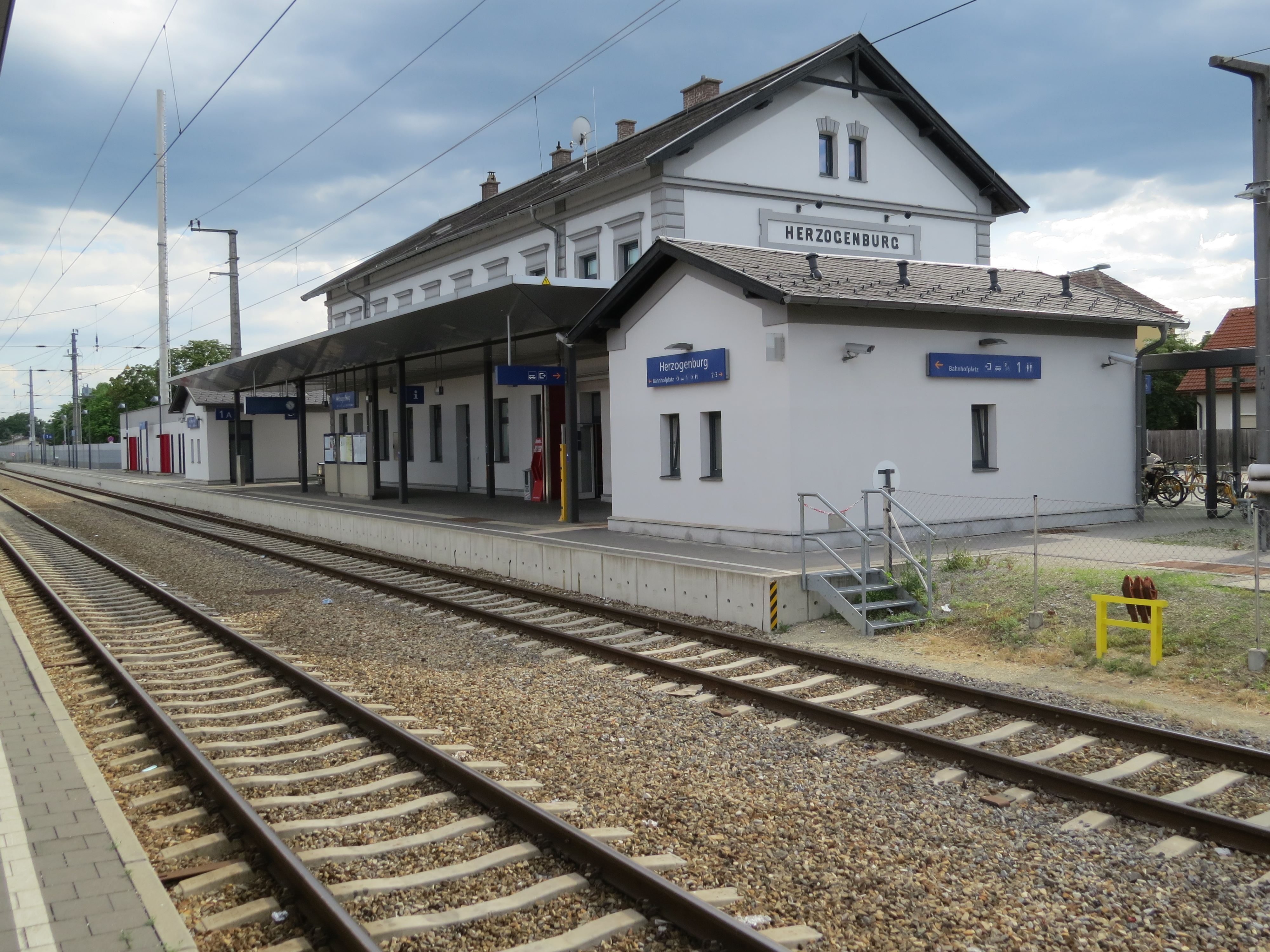 Bahnhof Herzogenburg